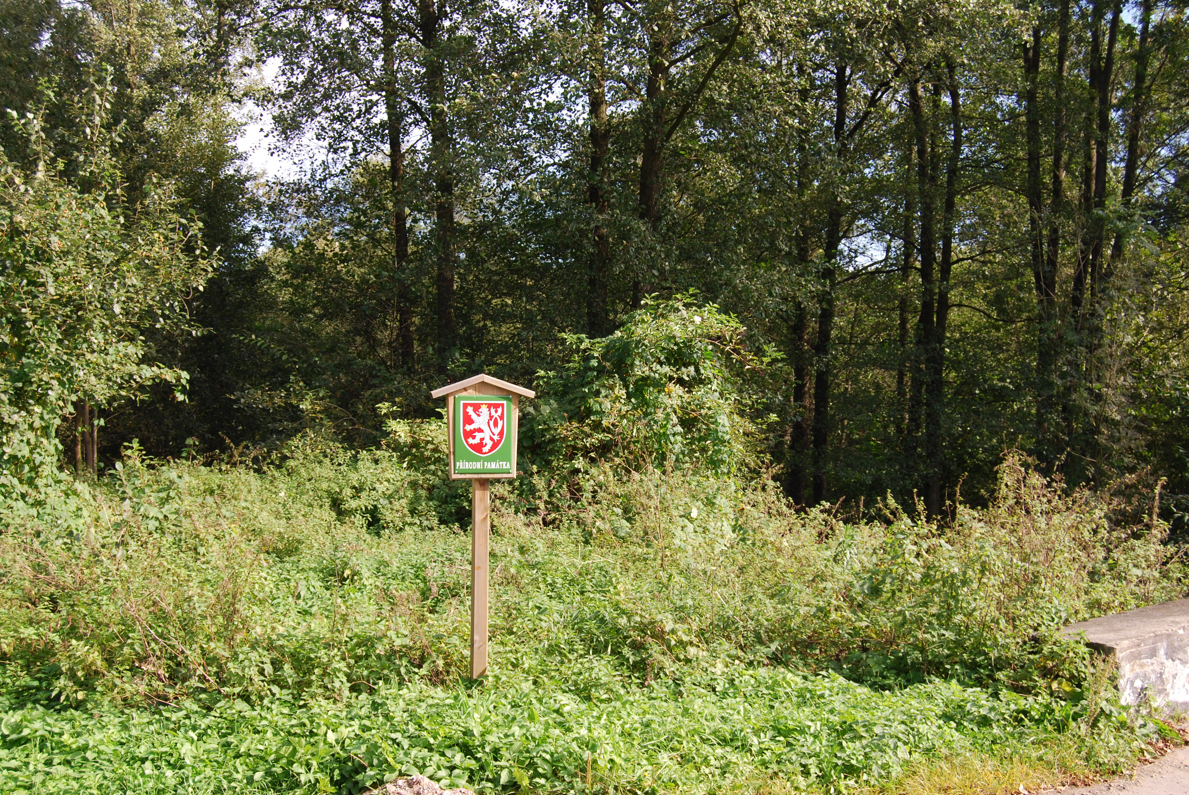 Protect area Hrádeček in Prachatice District, Czech Republic.